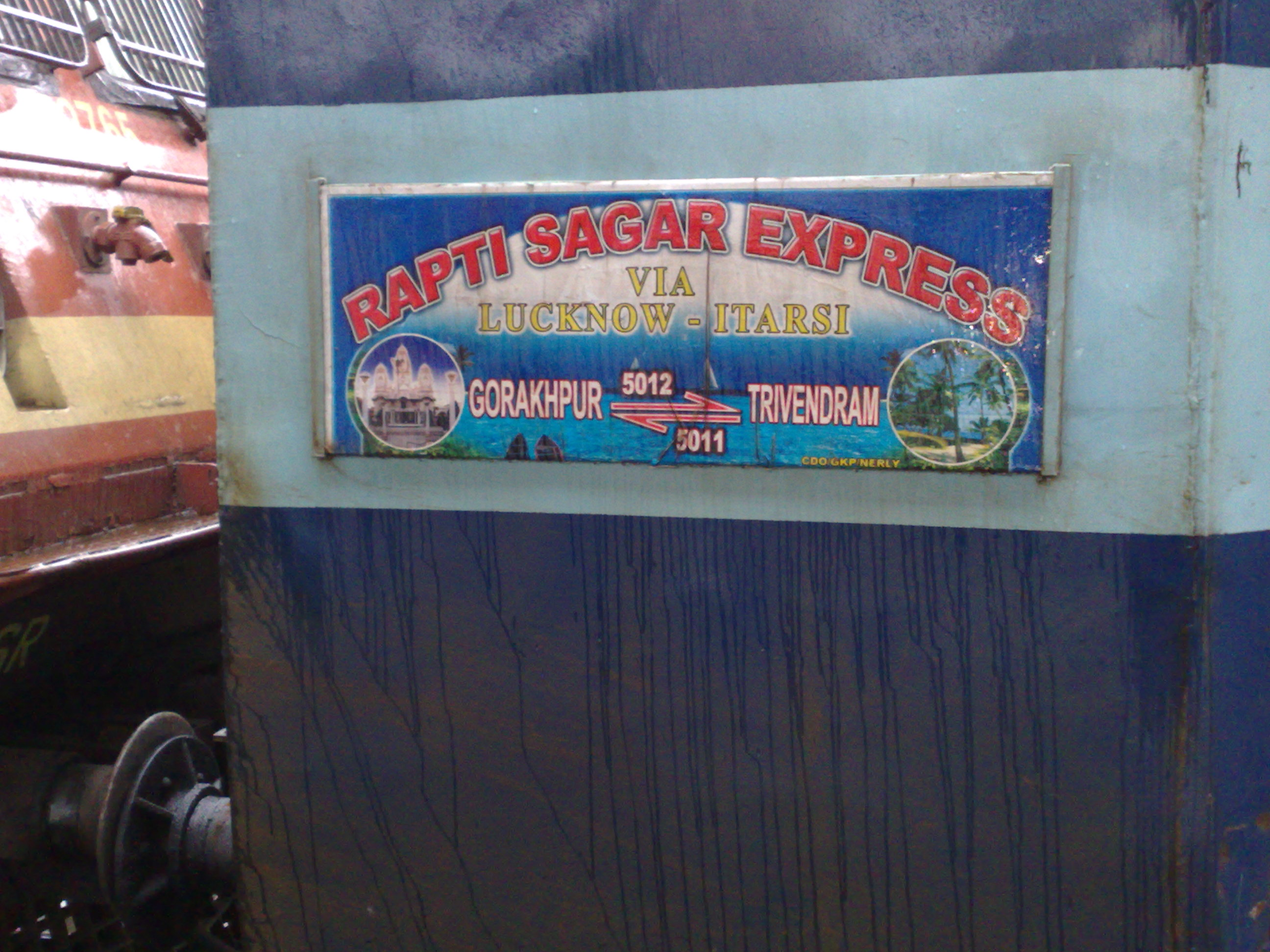 Raptisagar Express trainboard